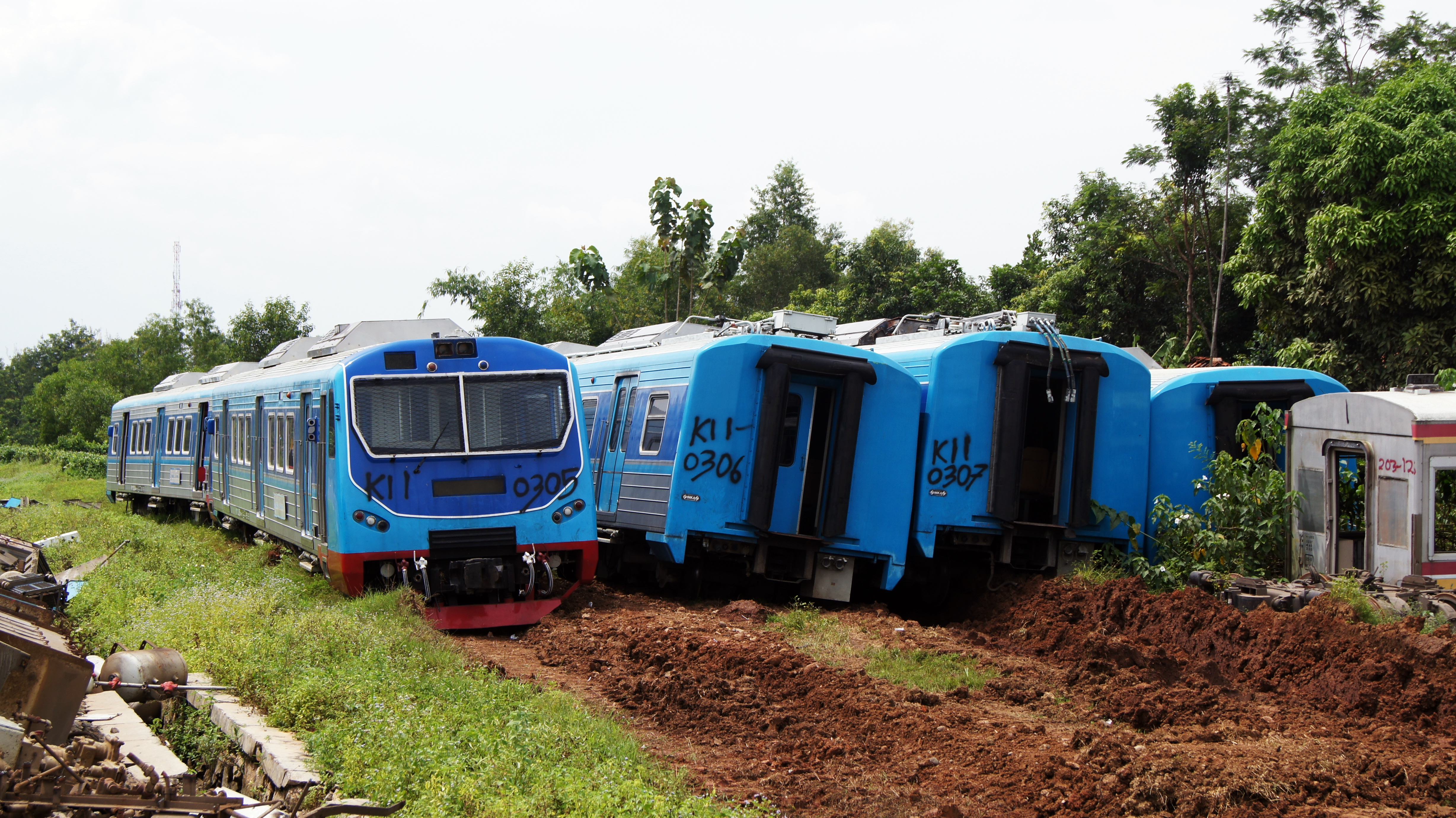 Scrapped KRLI Prajayana sets at Cikaum